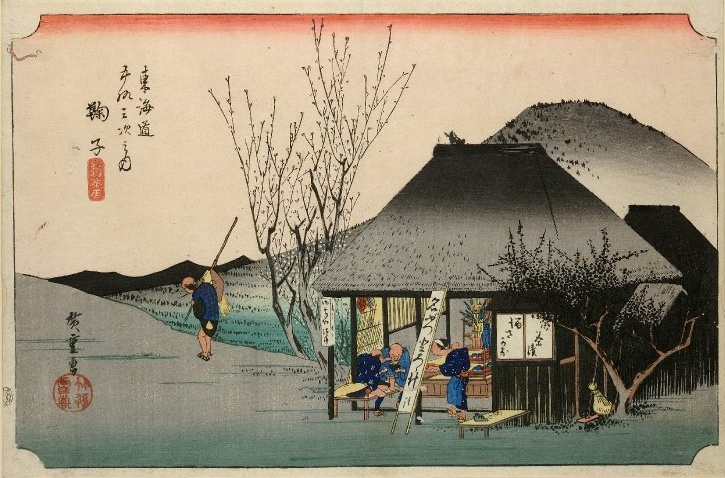 Station Mariko, „Famous Tea Shop“ (meibutsu chamise, 名物茶店); variant b; publisher seal Takemago (竹孫) and Tsuruki (鶴喜) (Hoeidō and Senkakudō)